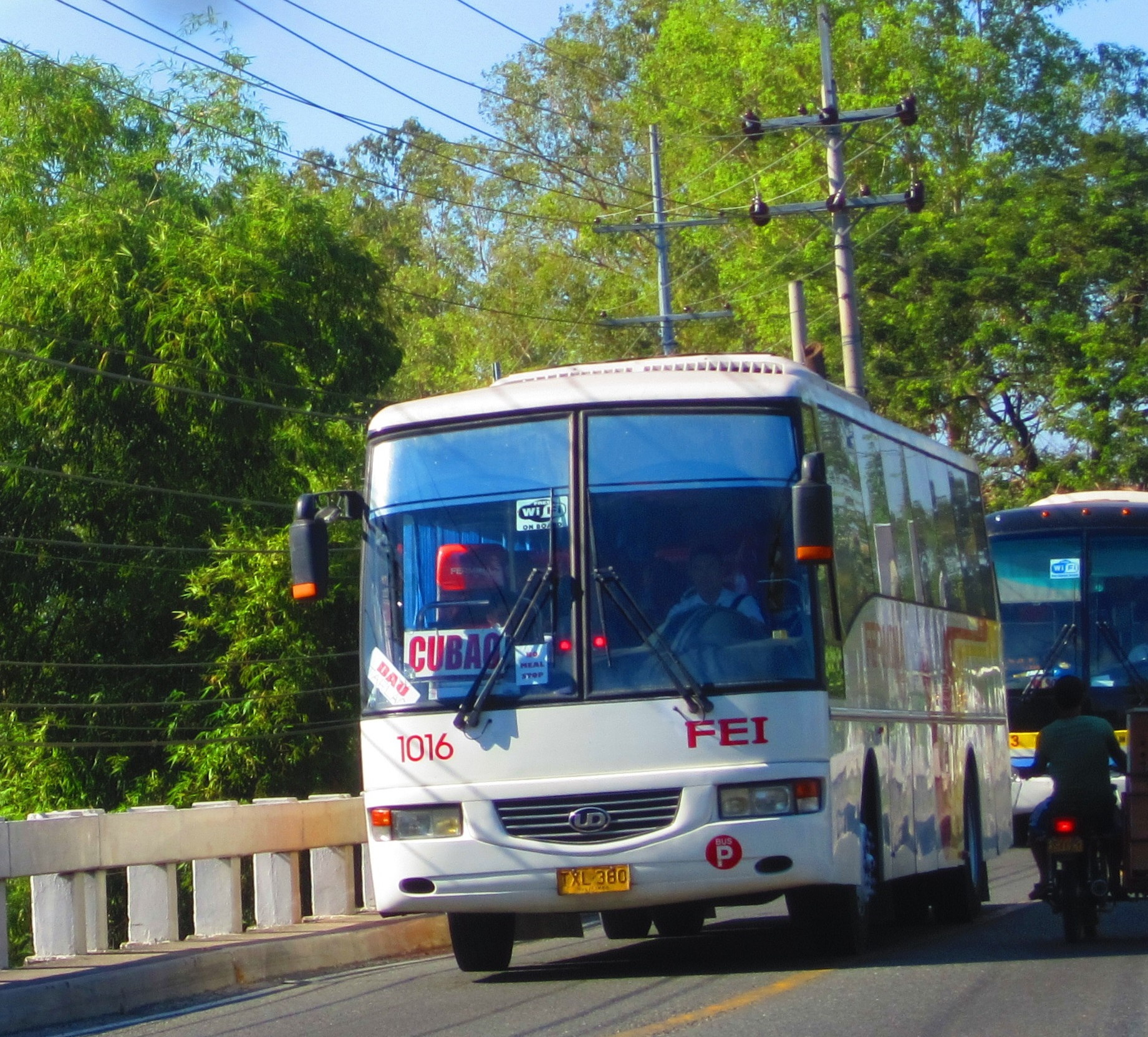 Fermina Express Inc - UD Nissan Diesel JA450SSN. Body Type: SR EXFOH Coachbuilder: Santarosa Motorworks Philippines Later became Pangasinan Solid North.